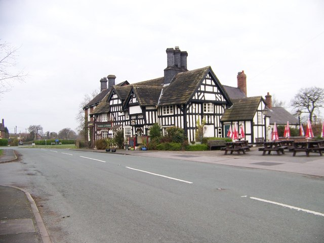 The Bears Head, Brereton Green says "The Bear's Head was built in 1615 according to the date carved into the old timbered porch and has been described as being "as noble as many an old manor house" by one commentator. In the days of coach travel nearby Brereton was a thriving village of 700 inhabitants and this inn was a popular posting house on the London-Liverpool route. As coaching declined the Bear's Head entered a quieter period and by the 1891 survey of Cheshire public houses it was recorded as a freehouse. It then had 4 bedrooms and "drinking accommodation for 12 persons", with 2 stables and 6 stalls. However, trade must have recovered by the turn of the century since in 1903 facilities were extended to accommodate 6 bedrooms, 4 stables and 13 stalls."